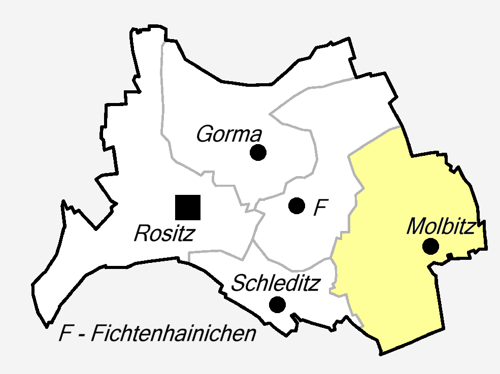 District-Maps of Molbitz in Rositz village.